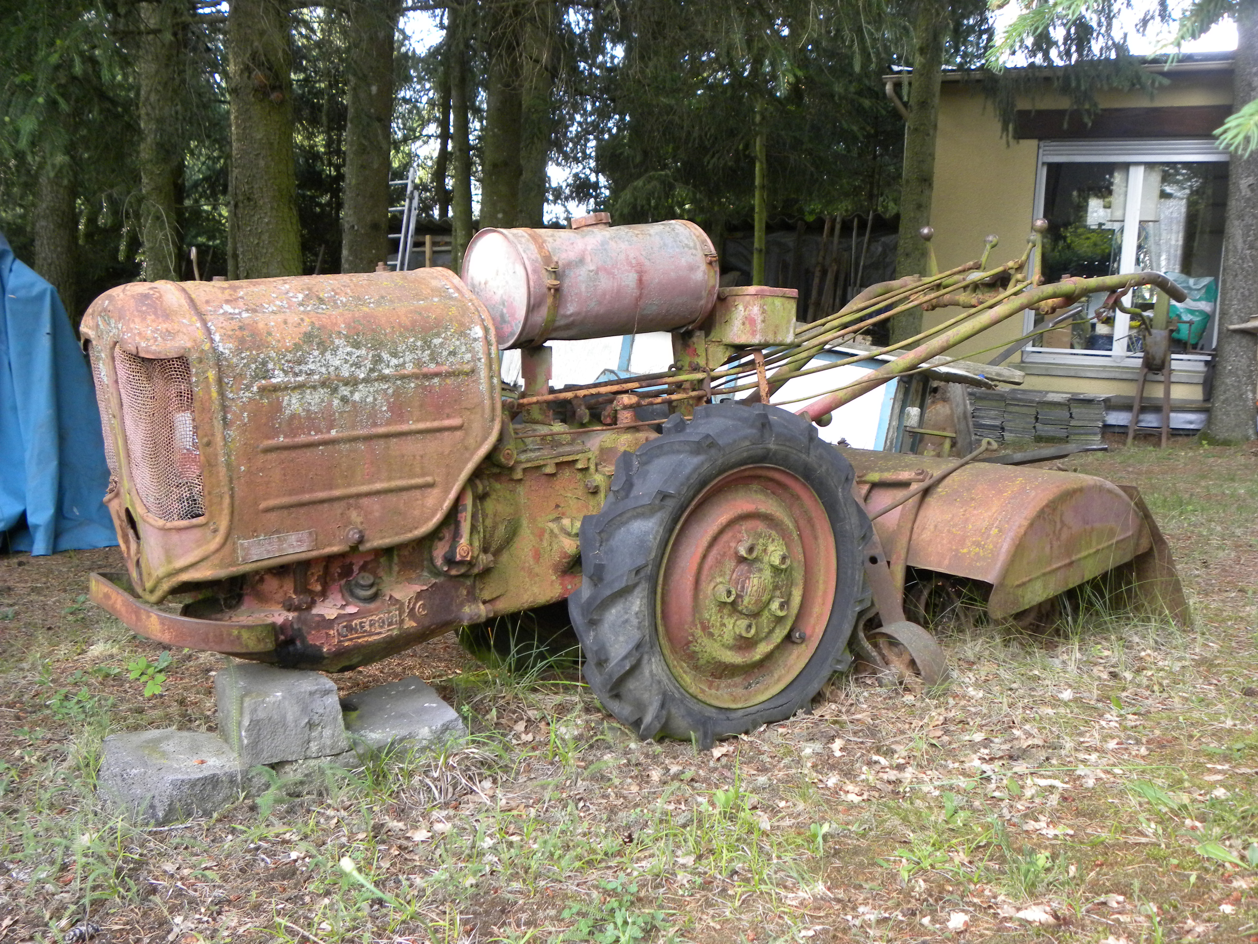 Energic Type 409 A Patissier serie G 15 two-wheel tractor